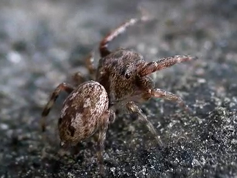 Female Zygoballus nervosus jumping spider found in Acton, Massachusetts. Still frame from video.